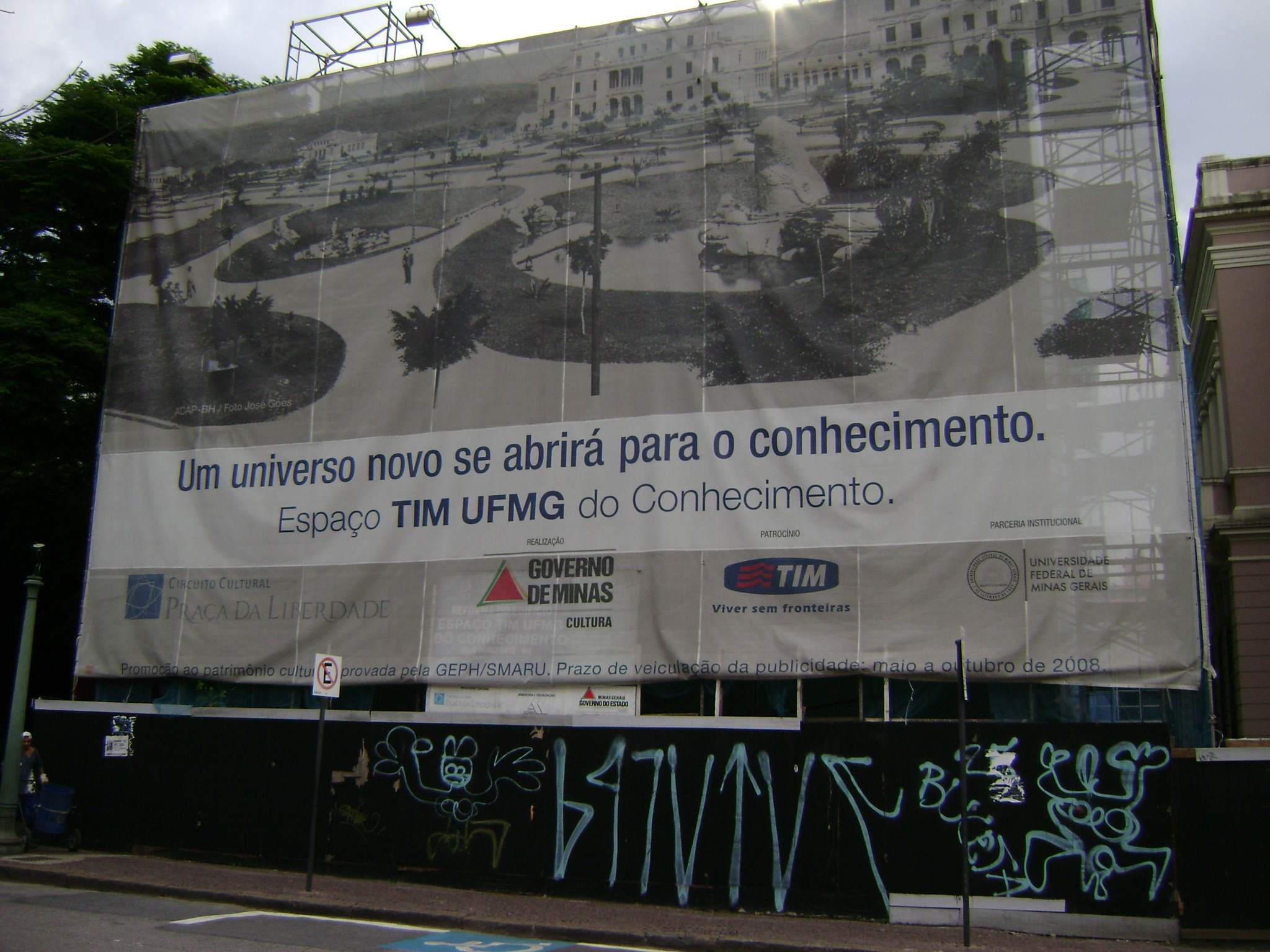 Espaço Tim UFMG em Belo Horizonte, na Praça da Liberdade.